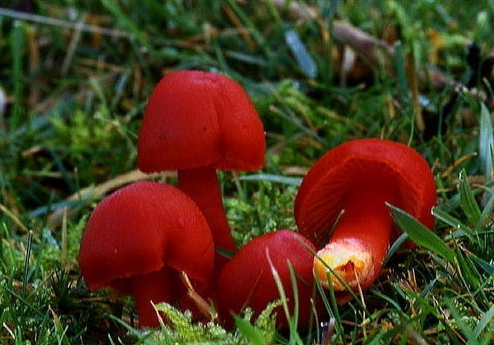 The source of this image is the photographer Frank Gardiner aka Zonda Grattus, who is the sole owner and copyright holder of this photograph and agrees to publish it under the Own Work, Creative Commons Attribution 3.0 License.